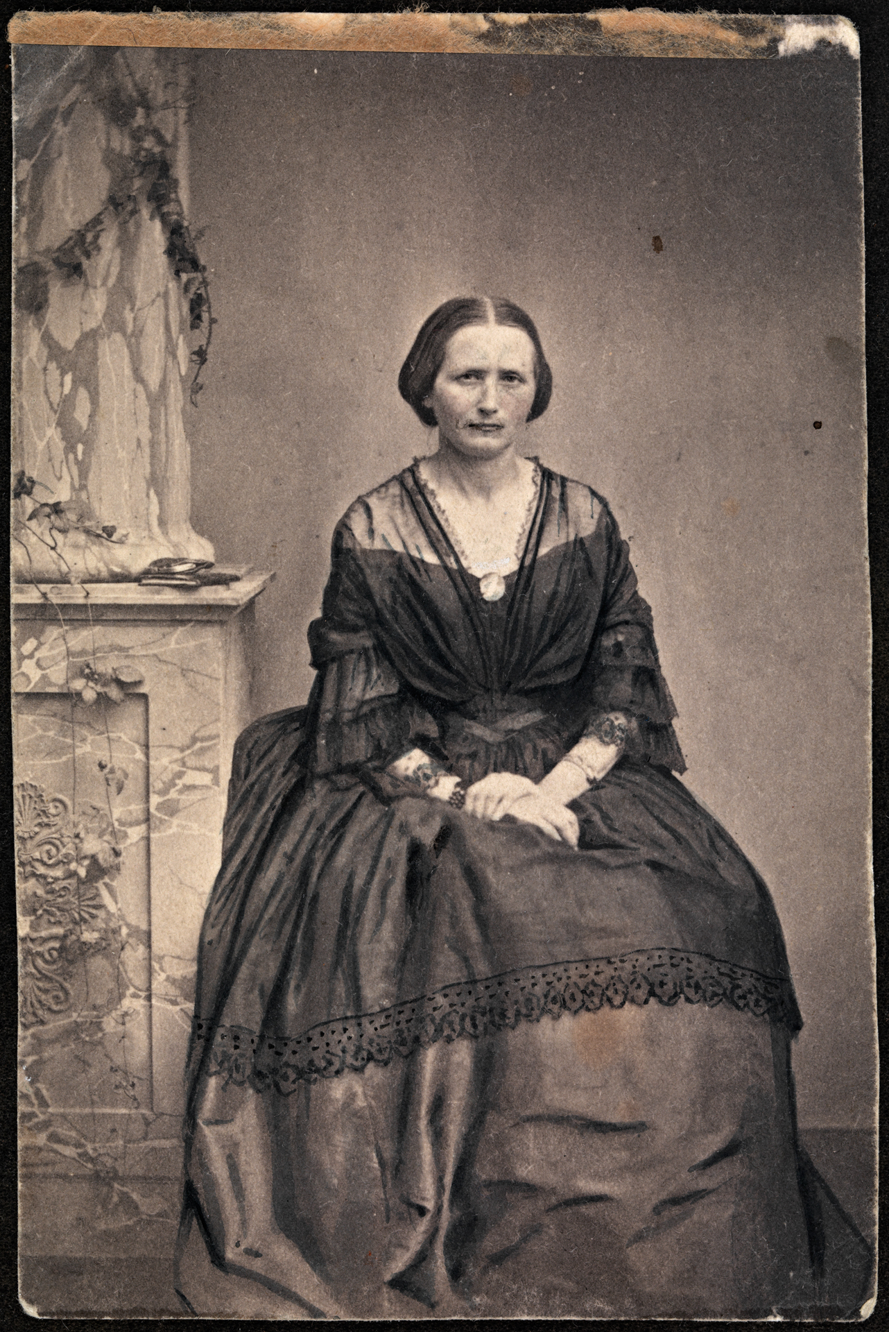 Tittel / Title: Portrett av Camilla Collett, 1860 Motiv / Motif: Visittkort. Dato / Date: 1860 Fotograf / Photographer: ukjent / unknown Sted / Place: Danmark, København Eier / Owner Institution: Nasjonalbiblioteket / National Library of Norway Lenke / Link: Bildesignatur / Image Number: blds_04508